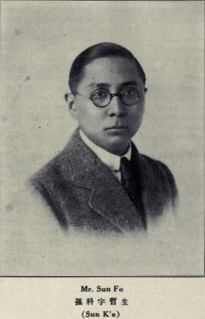 Sun Fo (Sun Ke; Sun K'o), Zhesheng (1891 - 1973)